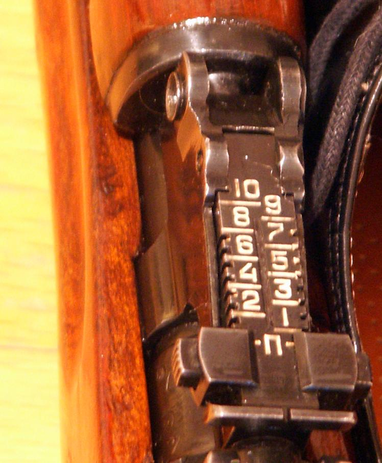 Russian Sight